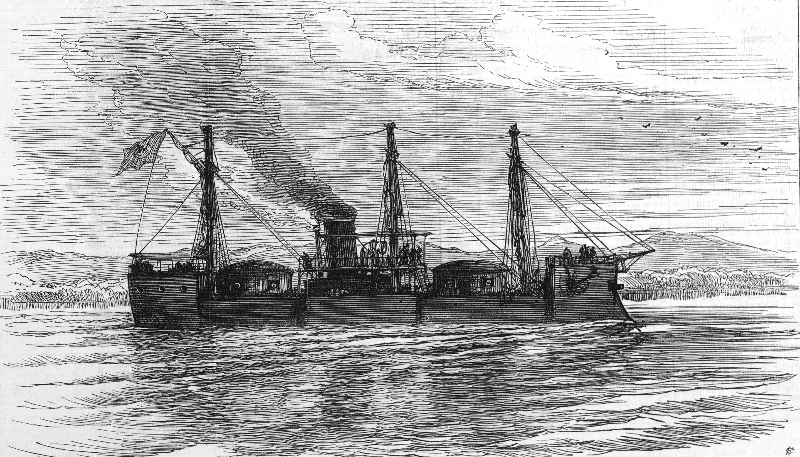 The Turkish Gun-Boat Lufti Djelil, sunk by the Russian batteries near Braila.